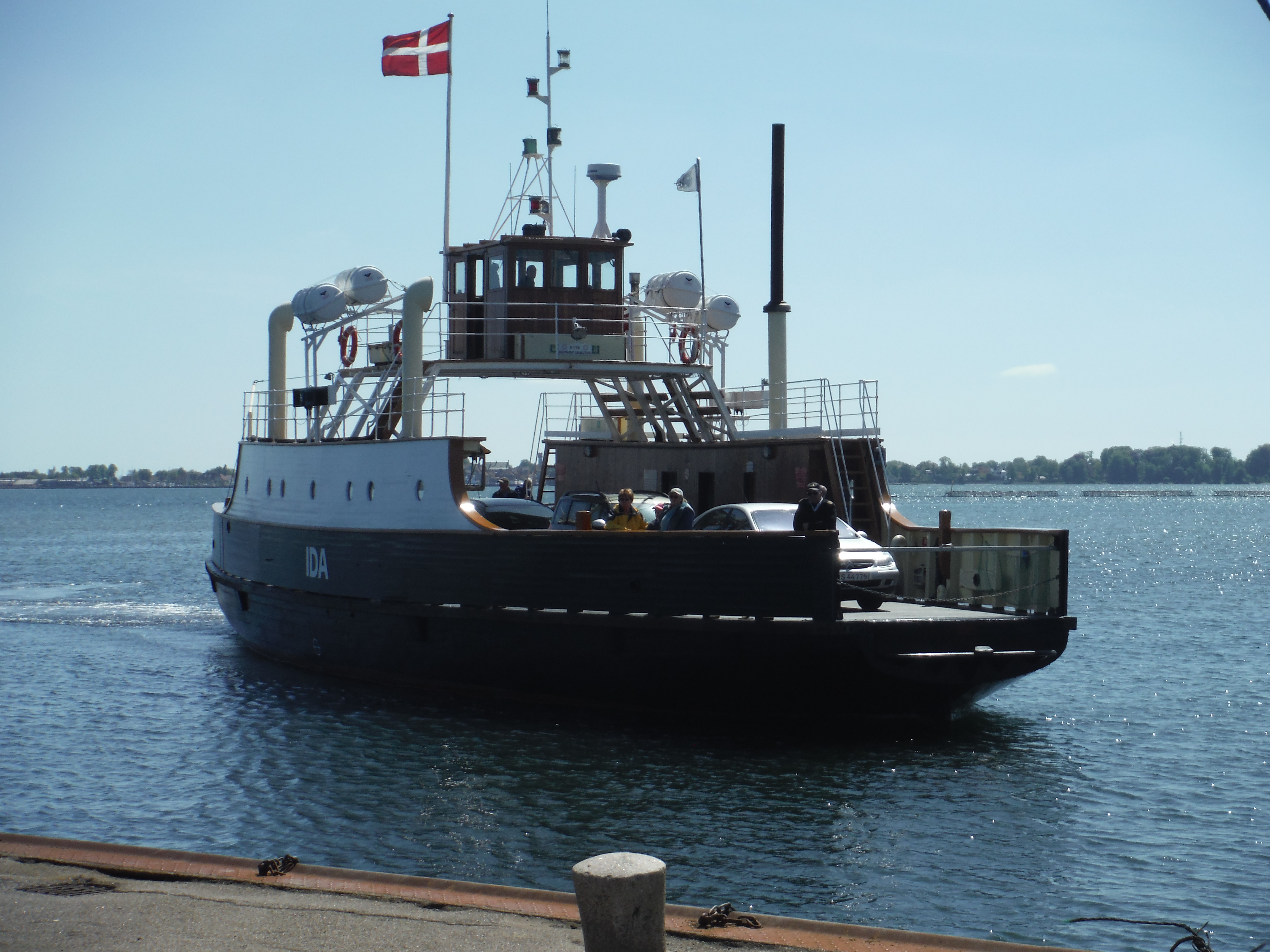 Ferry from Stubbekøbing to Bogø